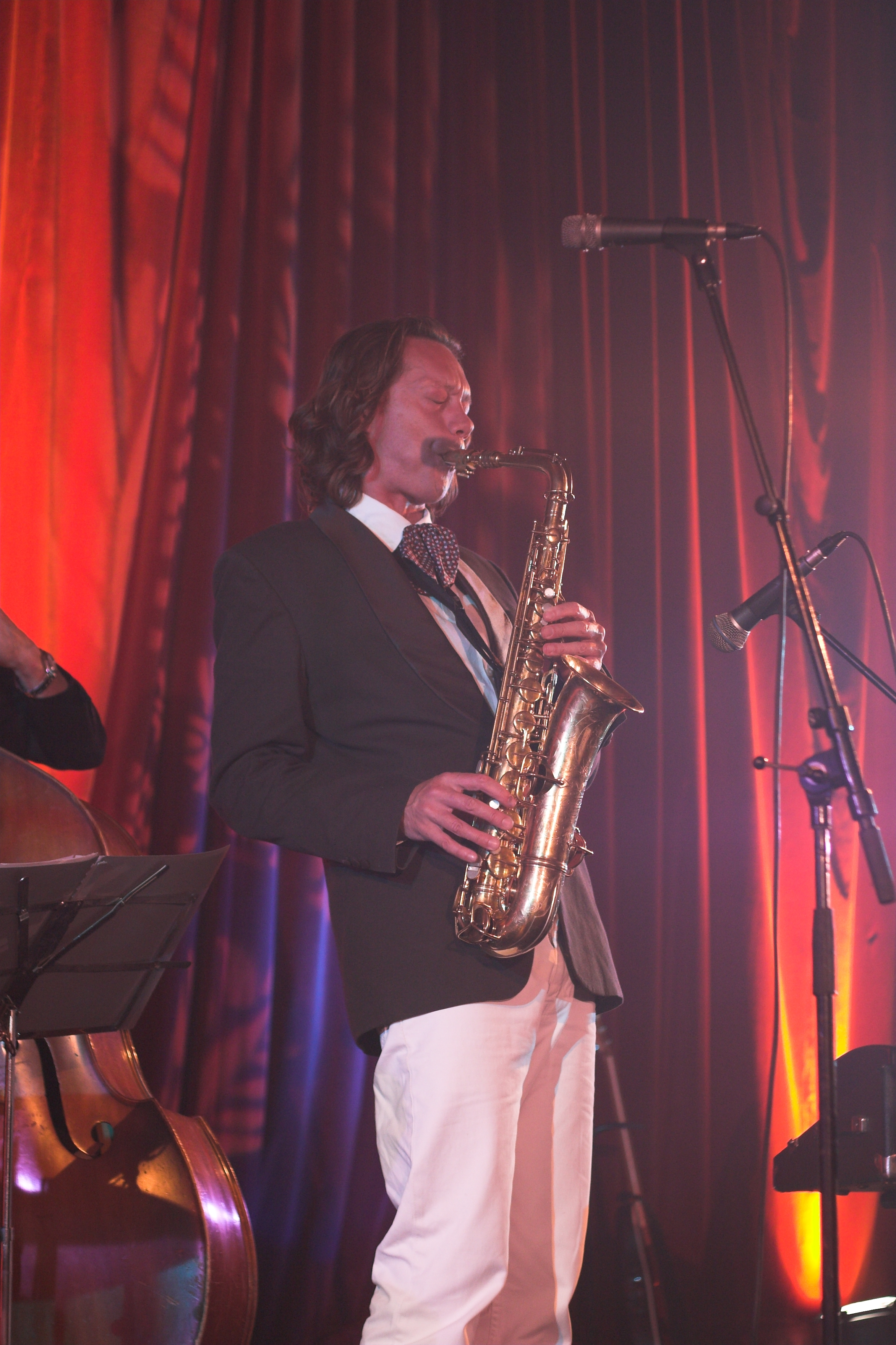 Nathan Haines at Techfest 2006, playing a straight-necked Conn C-Melody saxophone.